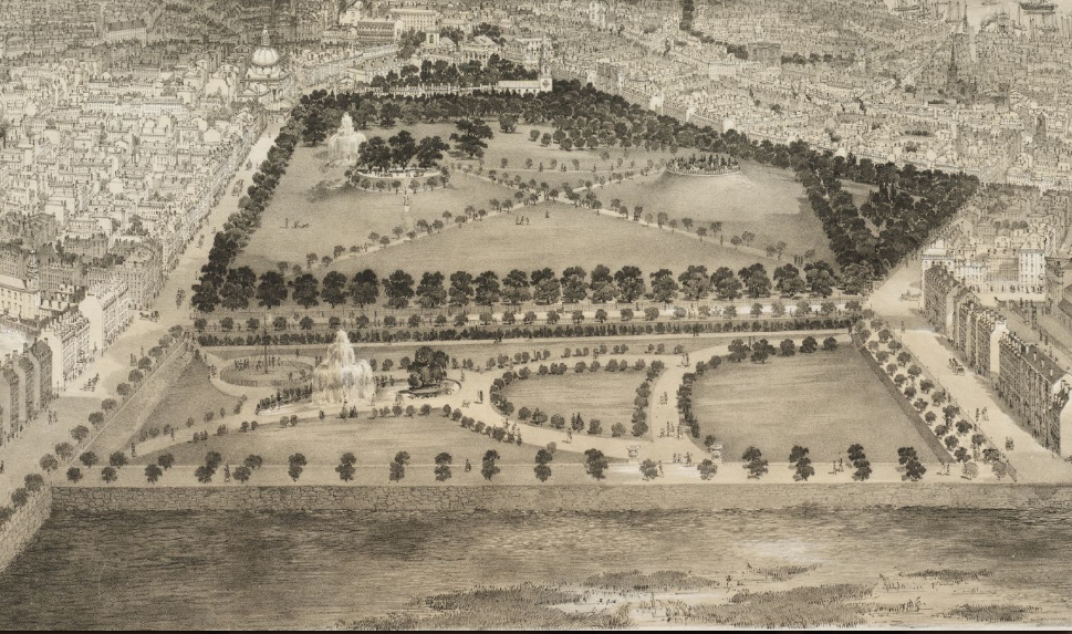 Detail of John Bachmann's 1850 Bird's-Eye View of Boston, showing Common, Public Garden, and vicinity